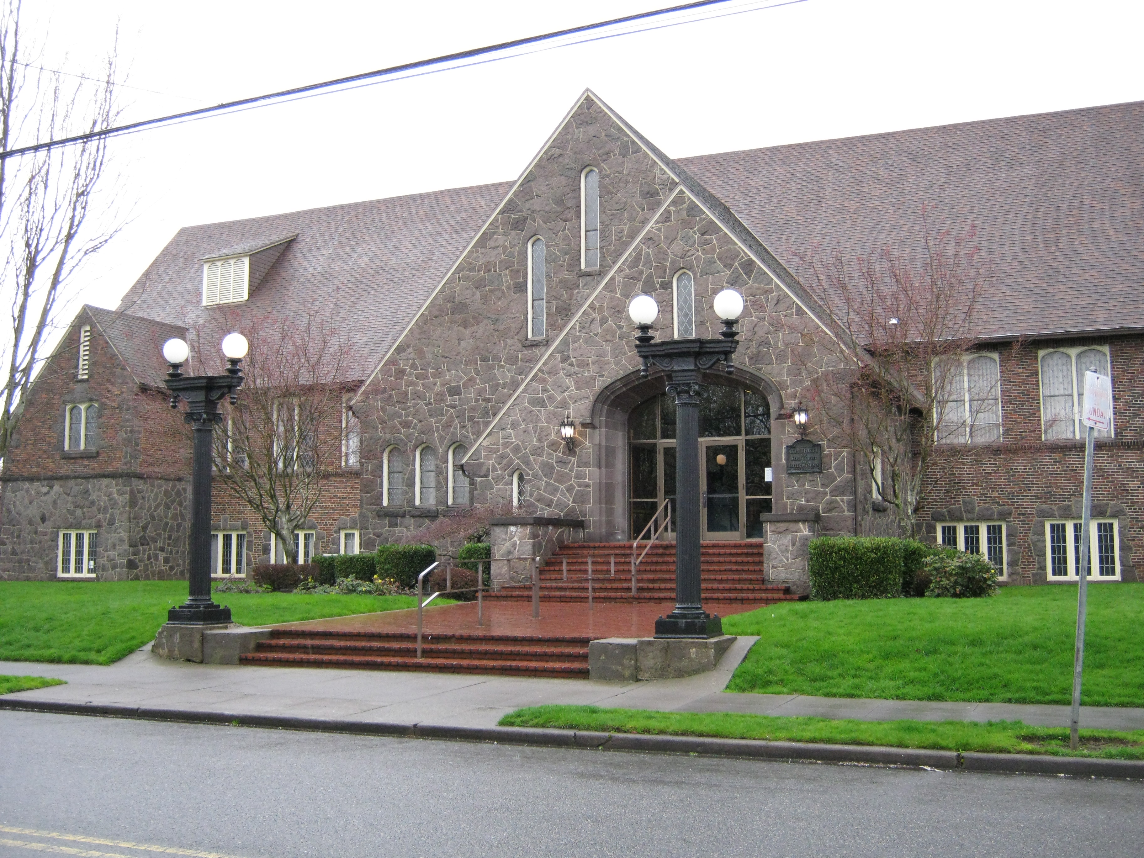 Portland First Ward Building (1928-29) of The Church of Jesus Christ of Latter-day Saints. Was also referred to as the Portland Stake Tabernacle for a time. Now exists as a ward meetinghouse for the Colonial Heights Ward, the Portland Heights Branch (Deaf), and the Mount Tabor Ward. Located at 2931 SE Harrison St., Portland, Oregon, United States. This picture depicts the front entrance of the building on its south side.